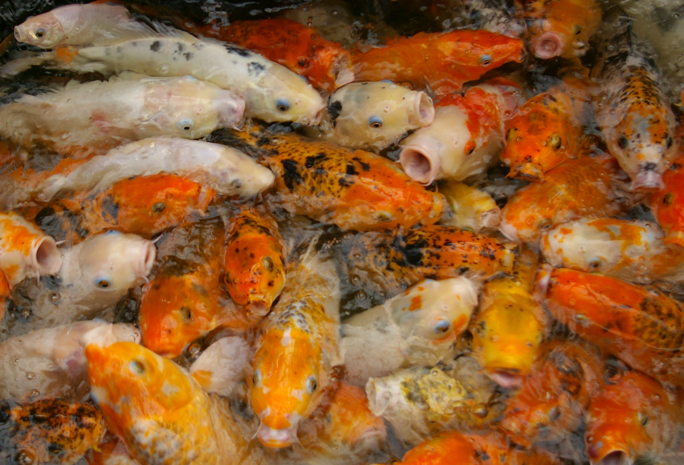 Koi Fish